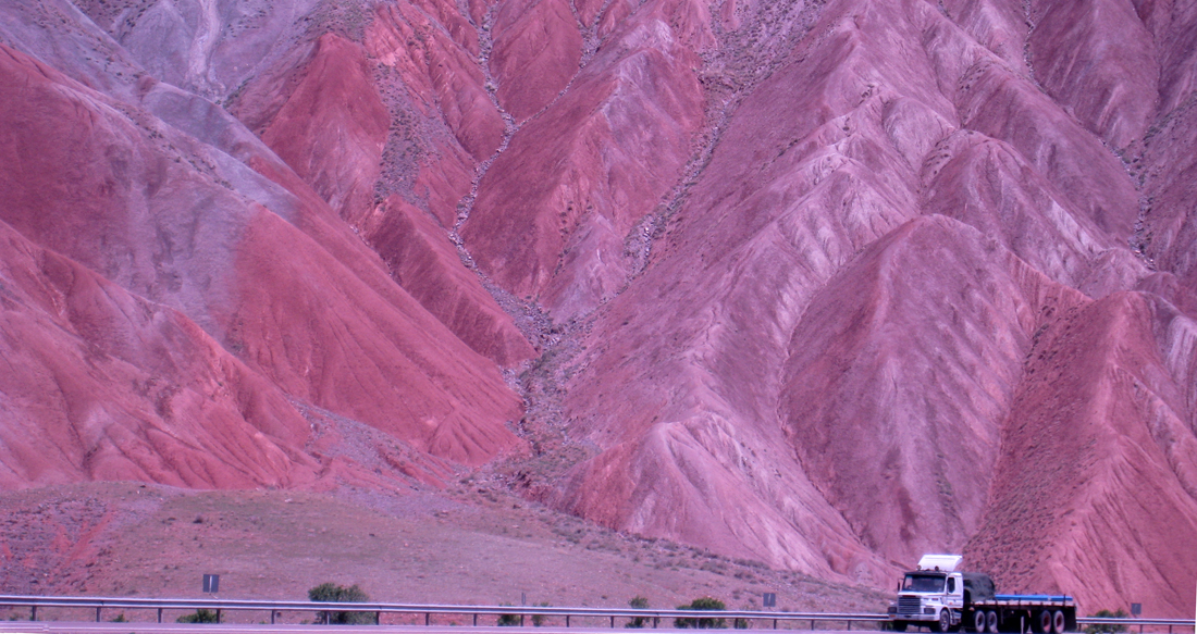 The Mountains near Soufian, East Azarbaijan, Iran